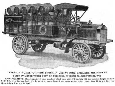 1911 Abresch-Cramer Model C 3 tn truck built by the Charles Abresch Co. of Milwaukee, Wisc., as a brewery truck. Model C was the largest model, available with a wheelbase of 145 or 175 in., twin rear wheels, 40 HP 4 cylinder engine, and shaft drive to the countershaft. From there, two chains went to the rear wheels.